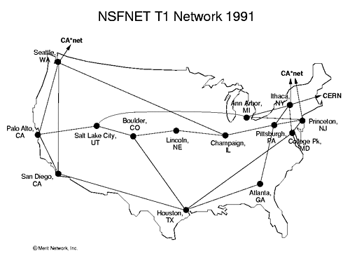 NSFNET T1 Backbone Map 1991 Source: Merit Network, Inc.